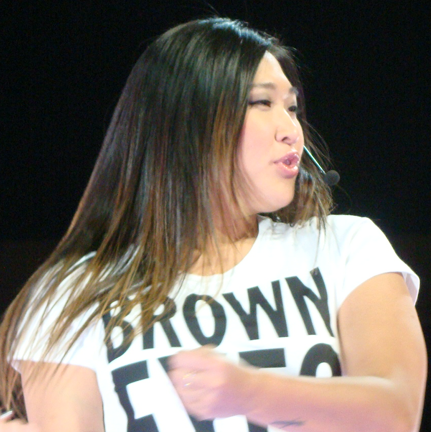 Jenna Ushkowitz as Tina Cohen-Chang, performing "Born This Way" on the Glee Live! In Concert! tour.